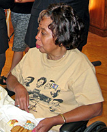 Thelma Mothershed Wair, one of the Little Rock Nine, at Little Rock's monument and stamp unveiling in 2005.